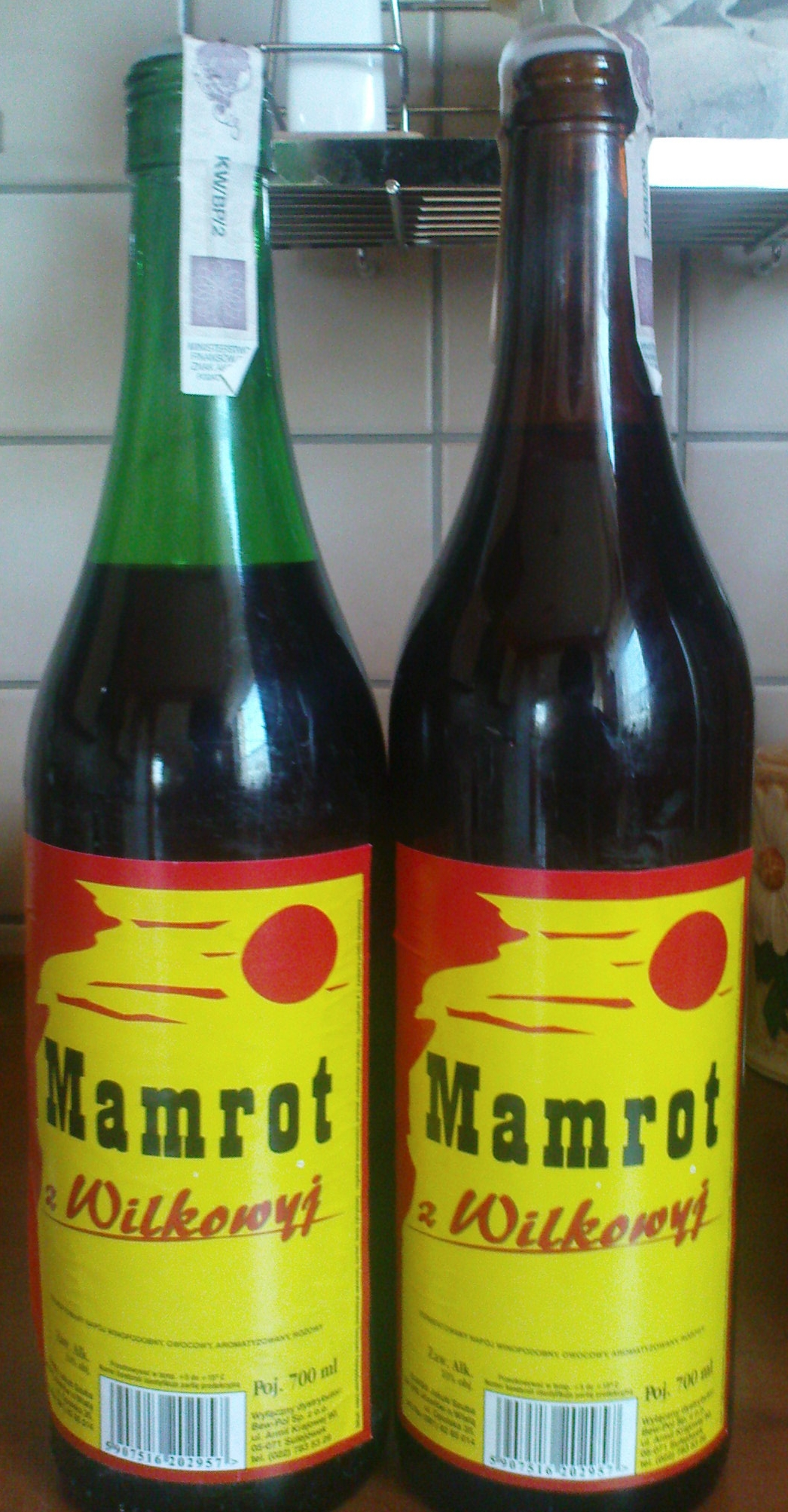 The Mamrots from Wilkowyje (green and red bottle)